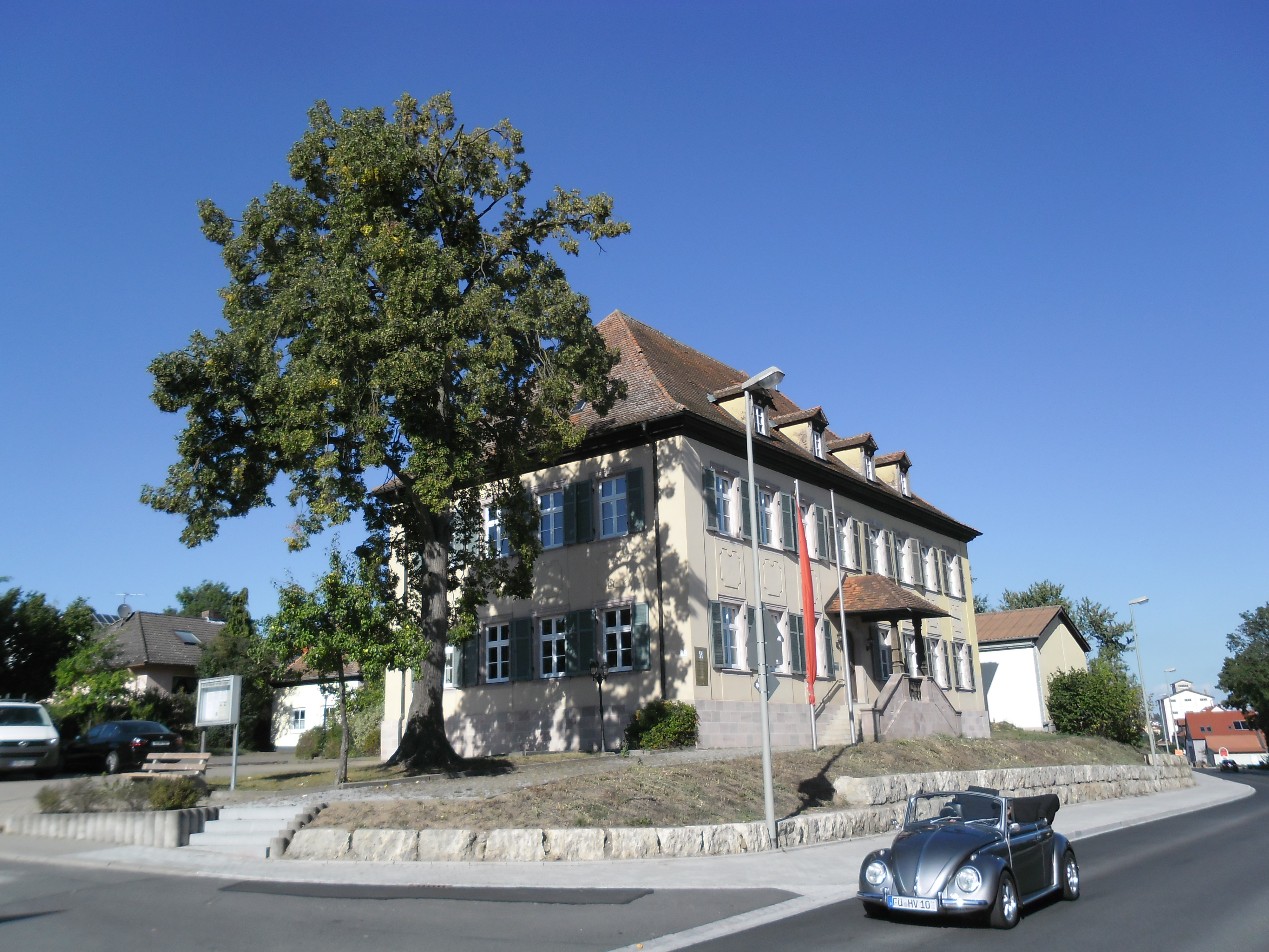 Administrative building in Aurachtal